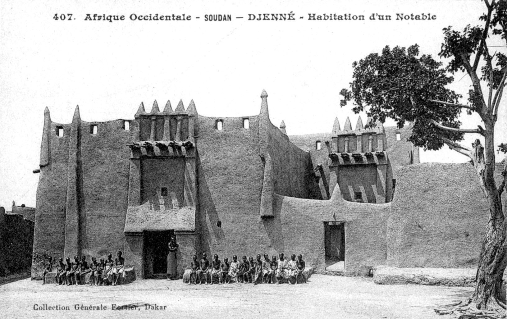 Postcard 407 by Edmond Fortier. A house in Djenné, Mali with a Toucouleur–style facade.